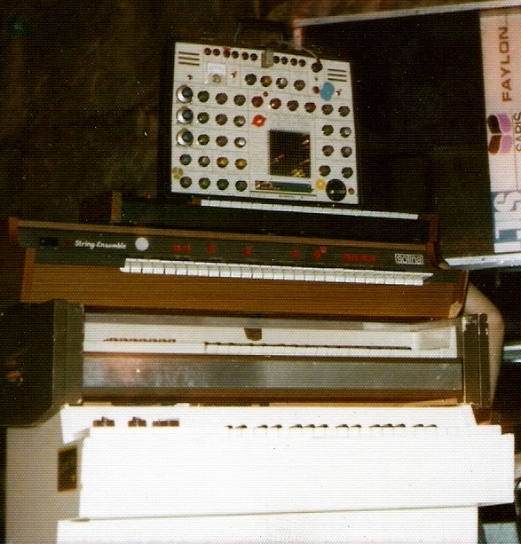 An EMS Synthi A as top of a stack of keyboards in a progressive rock band, circa 1974. top to bottom EMS Synthi A EMS DK series keyboard controller (may be one of EMS DK1 (1969, image), or DK2 (1971, image) Solina String Ensemble Optigan [1] Mellotron M400